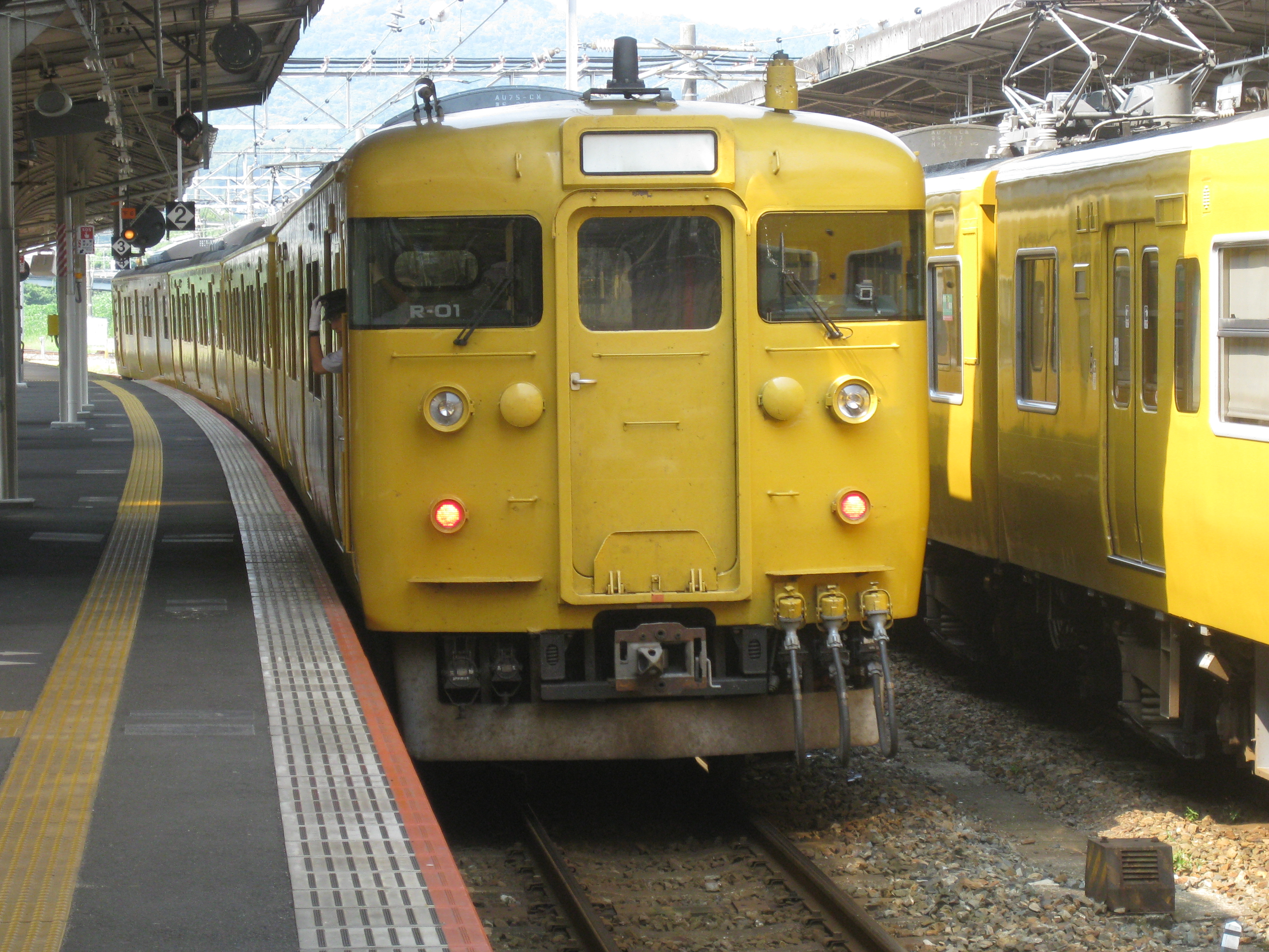 115 series Tc115-2620.Taken at Shin-Yamaguchi Station